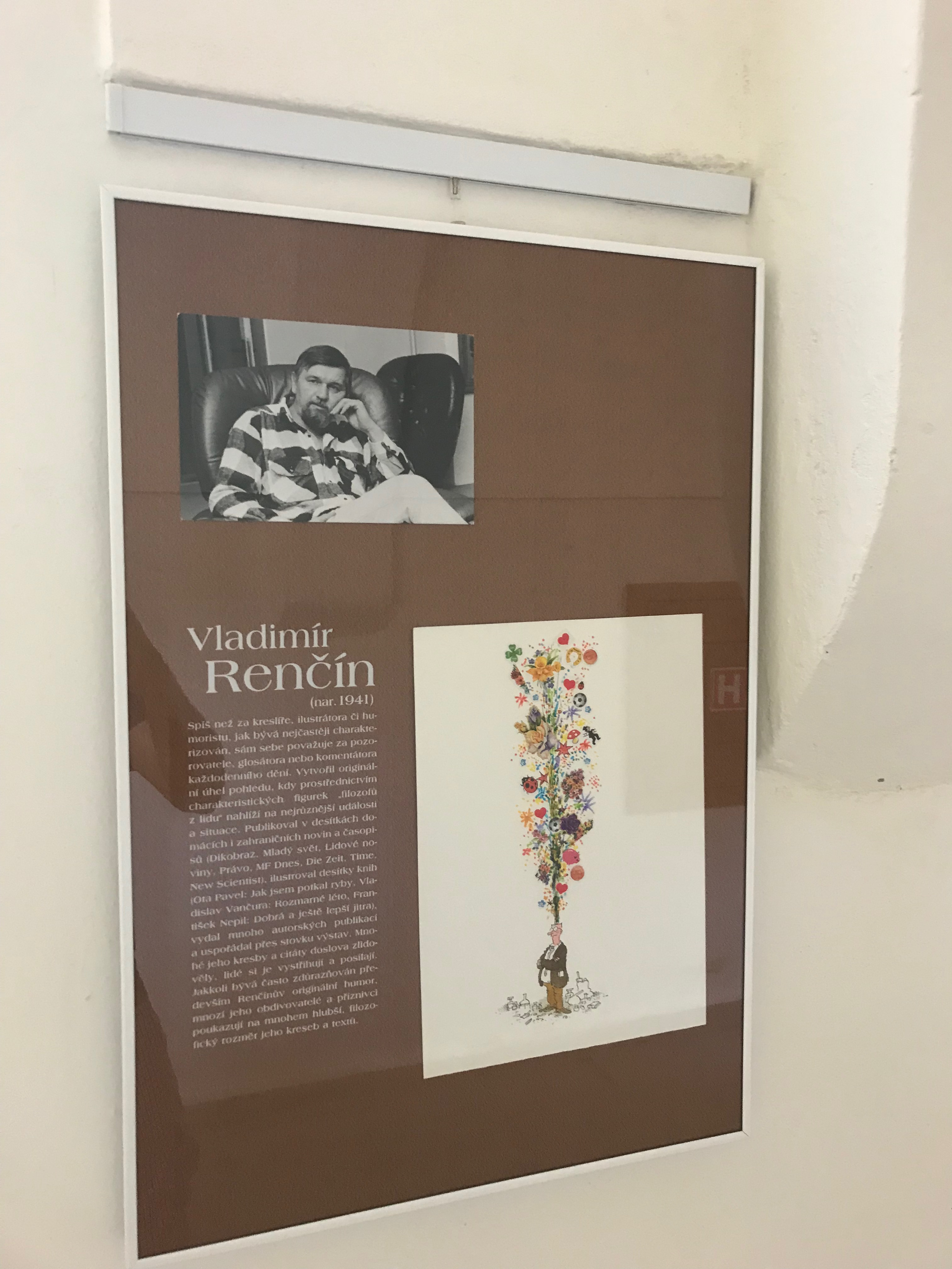 Vladimír Renčin sign in exposition History of pharmacies in Kuks Hospital in Kuks, Trutnov District